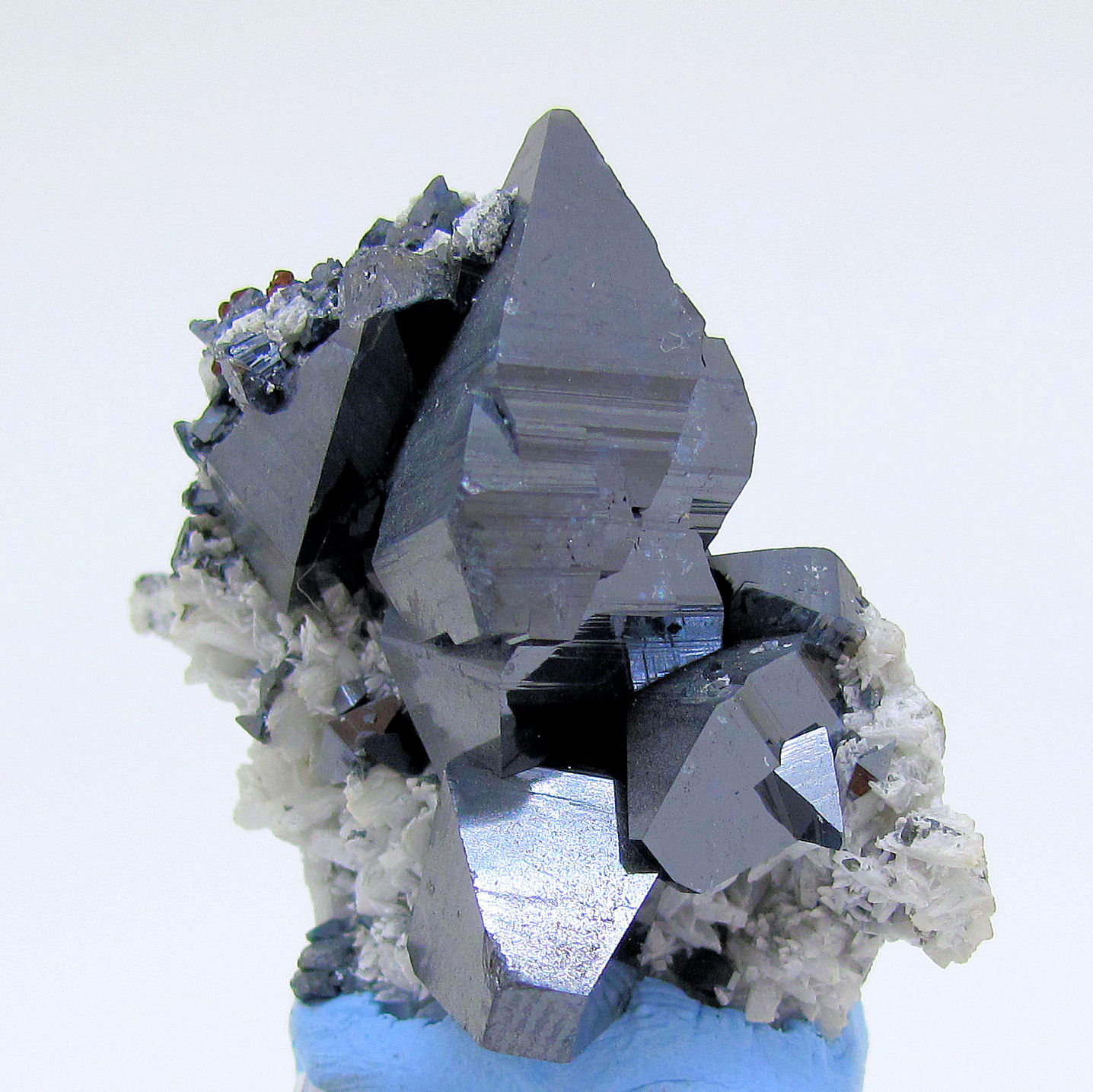 Anatase, Quartz Locality: Hardangervidda, Hordaland, Norway Original description: Group of anatase crystals on quartz. No damage. Overall size: 35 mm x 31 mm. Main crystal: 19 mm tall.